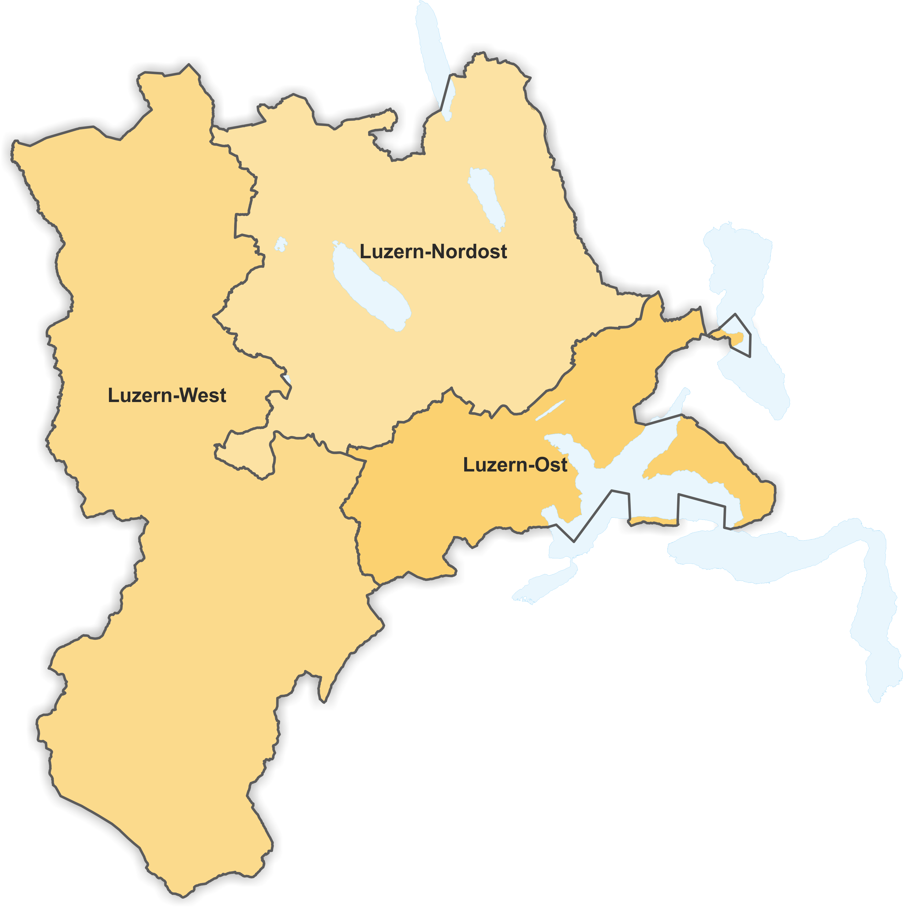 National council constituencies in the canton of Lucerne from 1902 to 1917